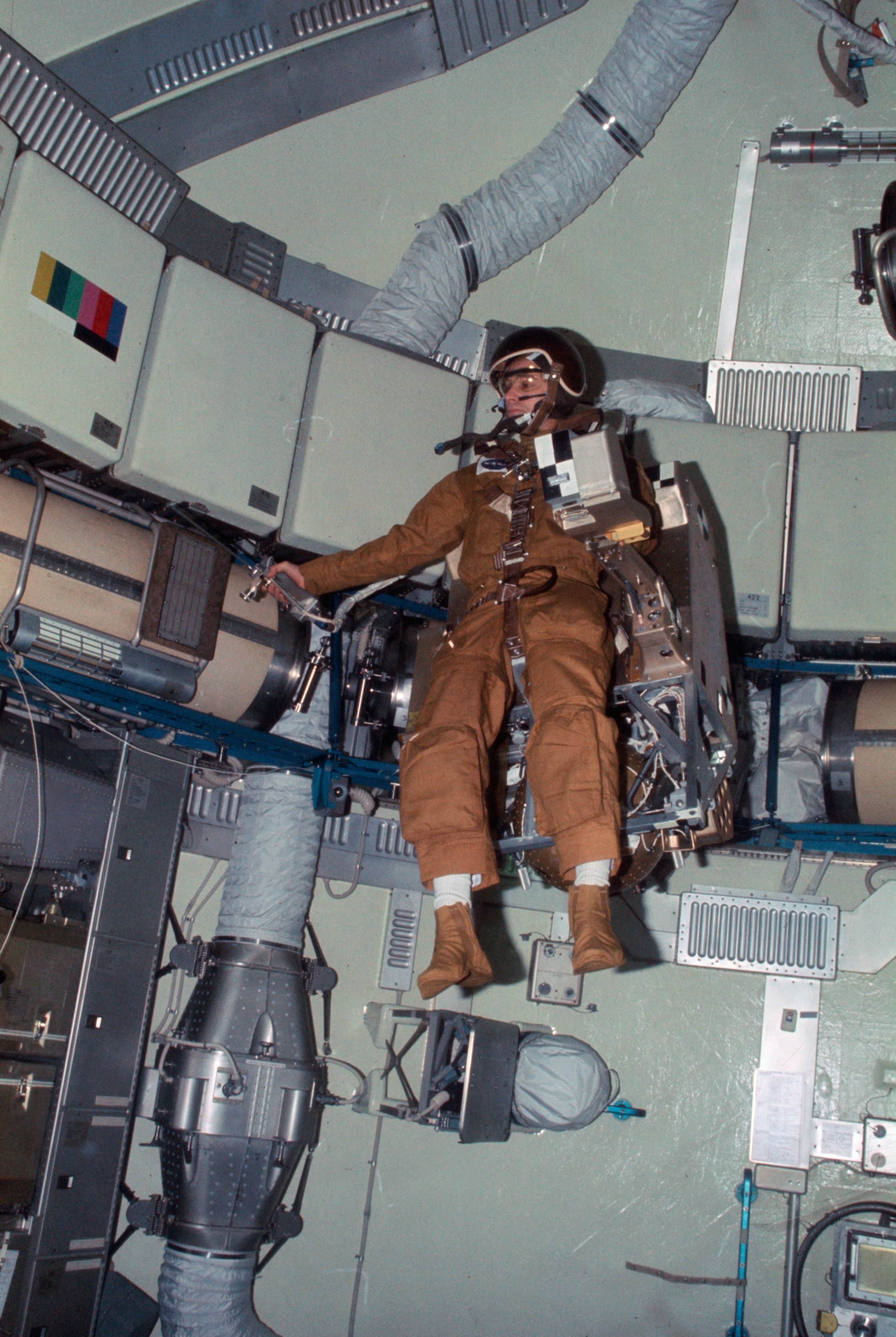 Astronaut Alan L. Bean, Skylab 3 commander, flies the M509 Astronaut Maneuvering Equipment in the forward dome area of the Orbital Workshop (OWS) on the space station cluster in Earth orbit. Bean is strapped in to the back-mounted, hand-controlled Automatically Stabilized Maneuvering Unit (ASMU). This ASMU exerperiment is being done in shirt sleeves. The dome area where the experiment is conducted is about 22 feet in diameter and 19 feet from top to bottom.